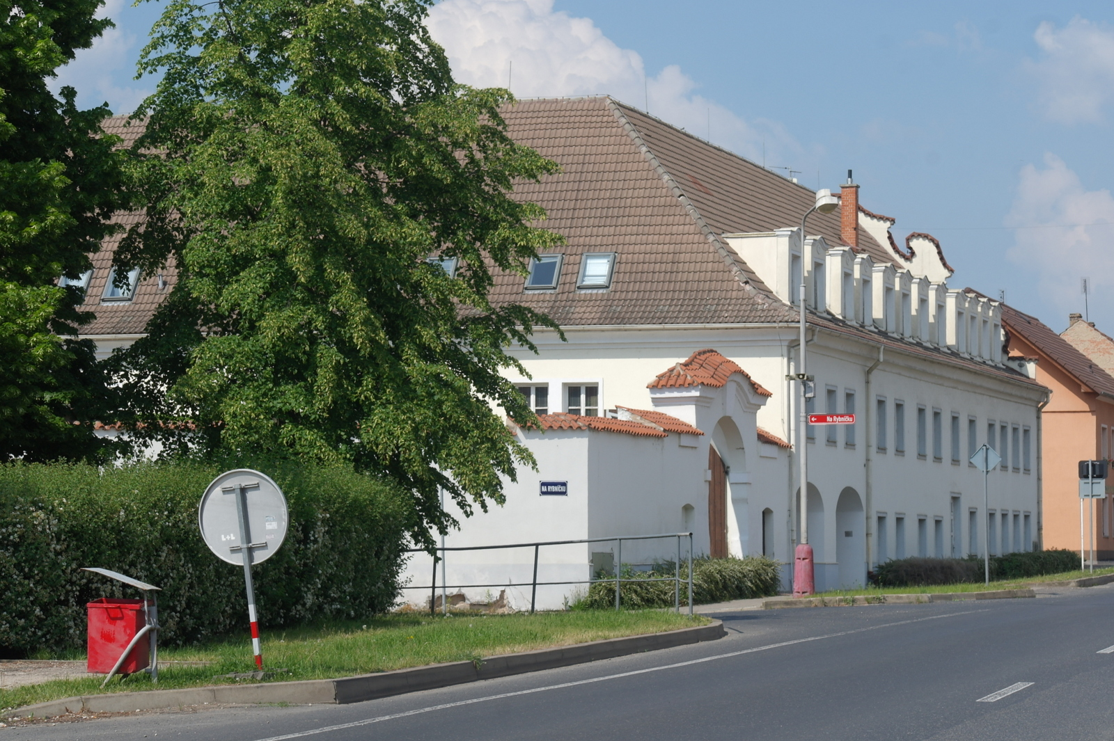 The coaching inn At the hop Wreath, 757 Žižkova str., Hracholusky, Roudnice nad Labem, Litoměřice District, Ústí nad Labem Region. An example of advanced Baroque urban architecture.